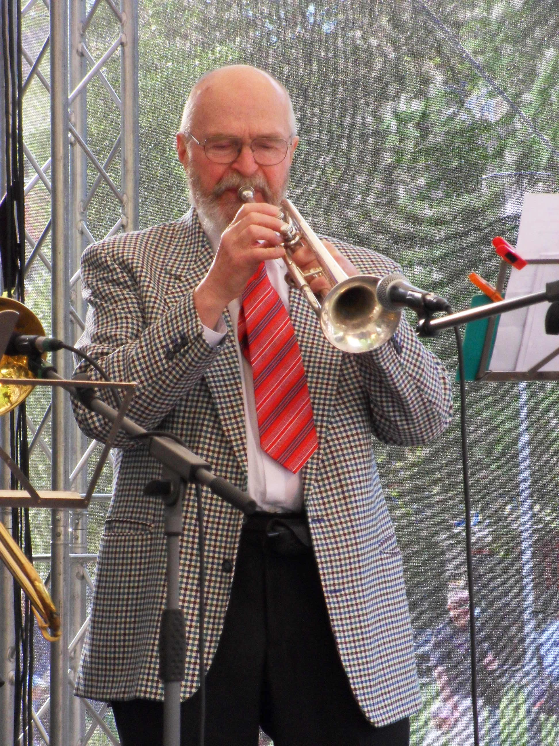 Czech trumpeter Jaromír Hnilička, Brno, Czech Republic